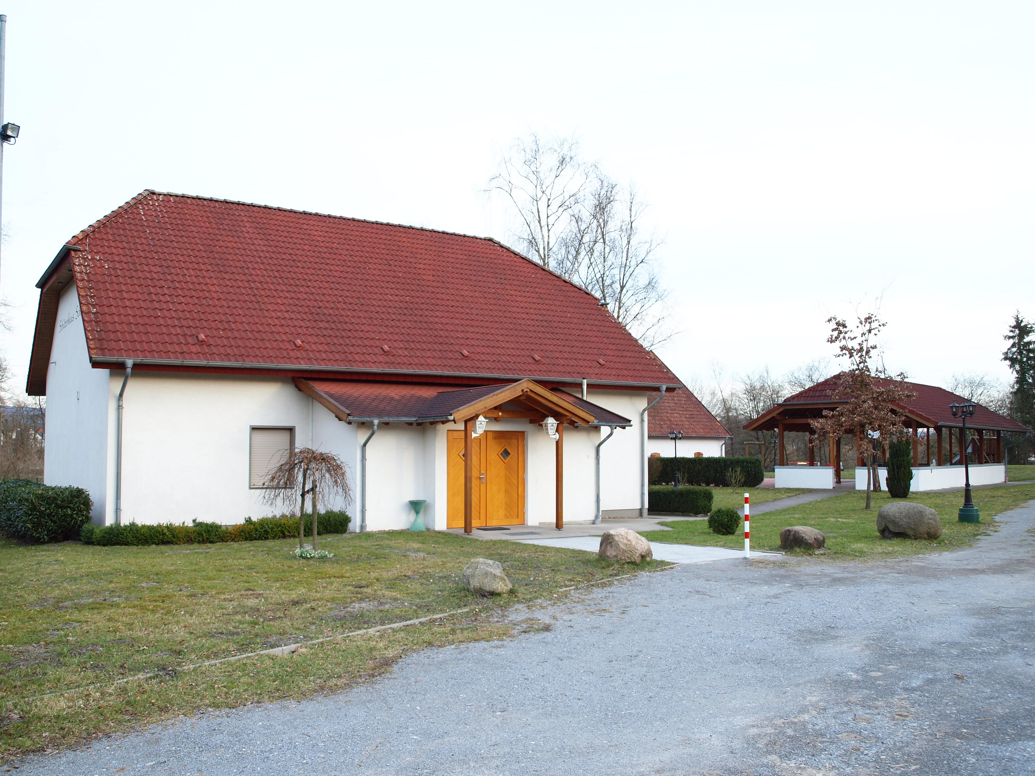 Shooter's house Schlangen